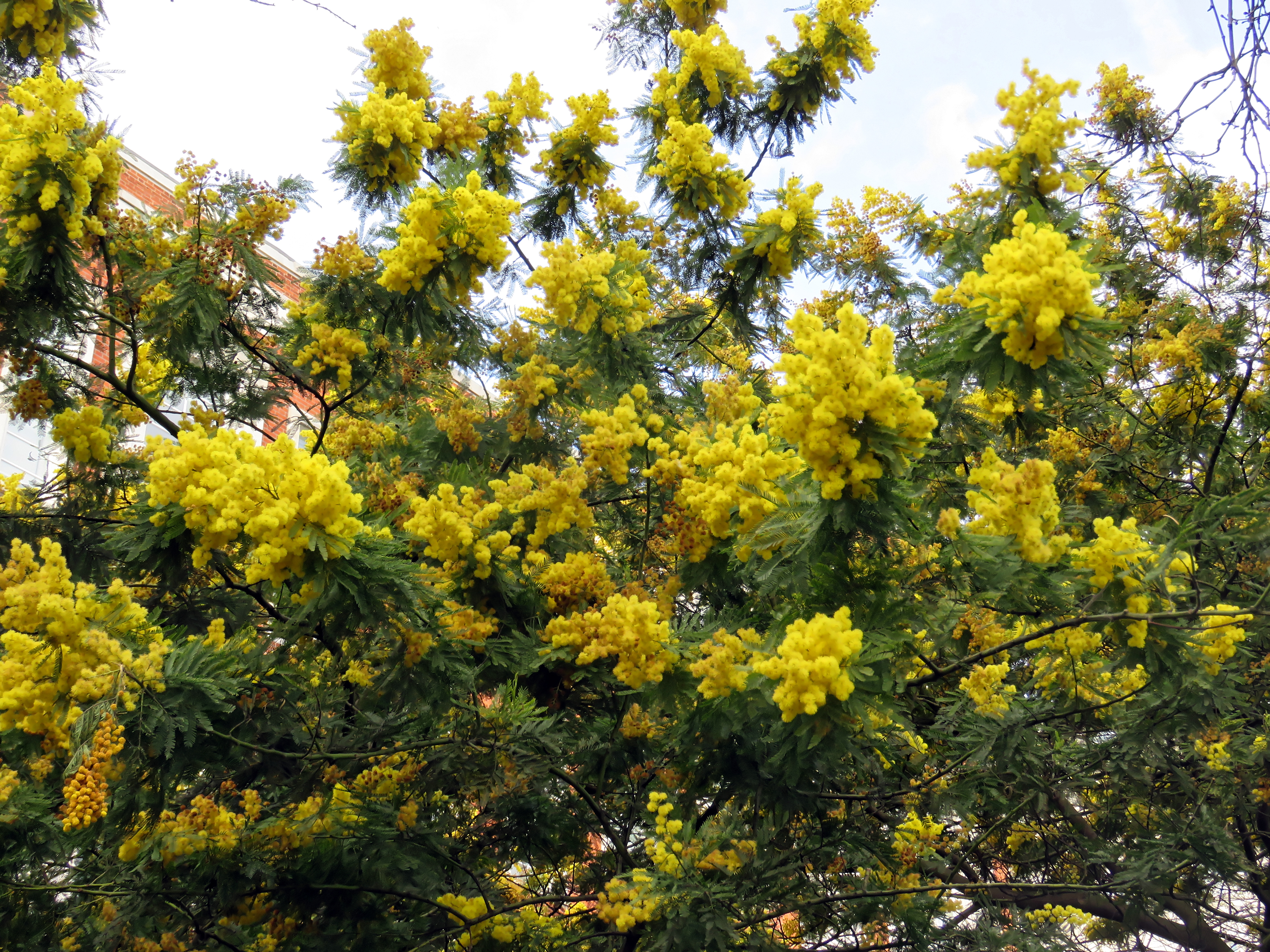 Mimosa scabrella, aka Acacia Mimosa Tree, Flowering Acacia, Acacia dealbata or Silver Wattle, in the Victoria Embankment Gardens, beside the River Thames in the City of Westminster, London, England.Camera: Canon PowerShot SX60 HS.Software: file lens-corrected and optimized with DxO PhotoLab Elite and Viewpoint 3, and further optimized with Adobe Photoshop CS2.